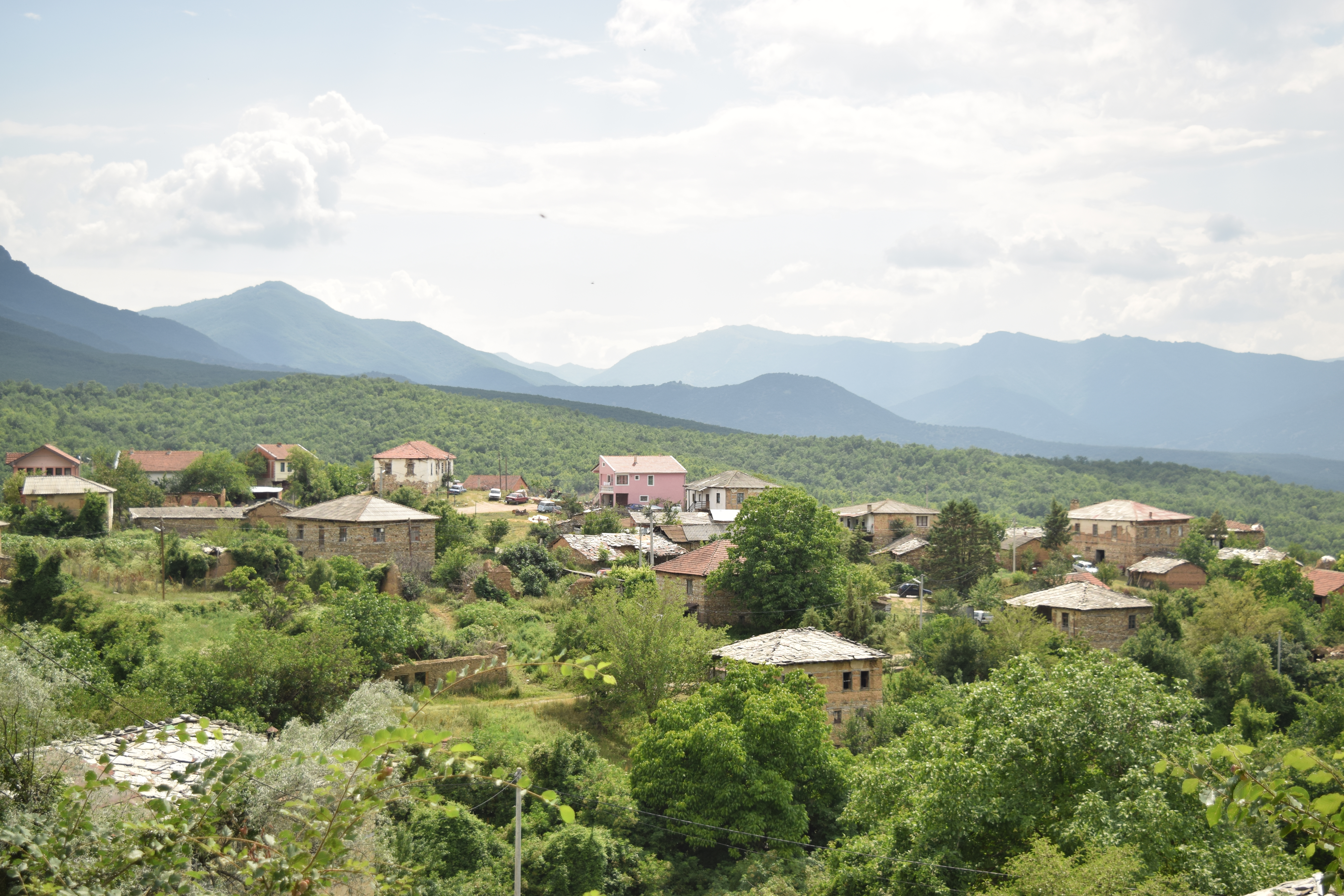 View of the village Vladilovci